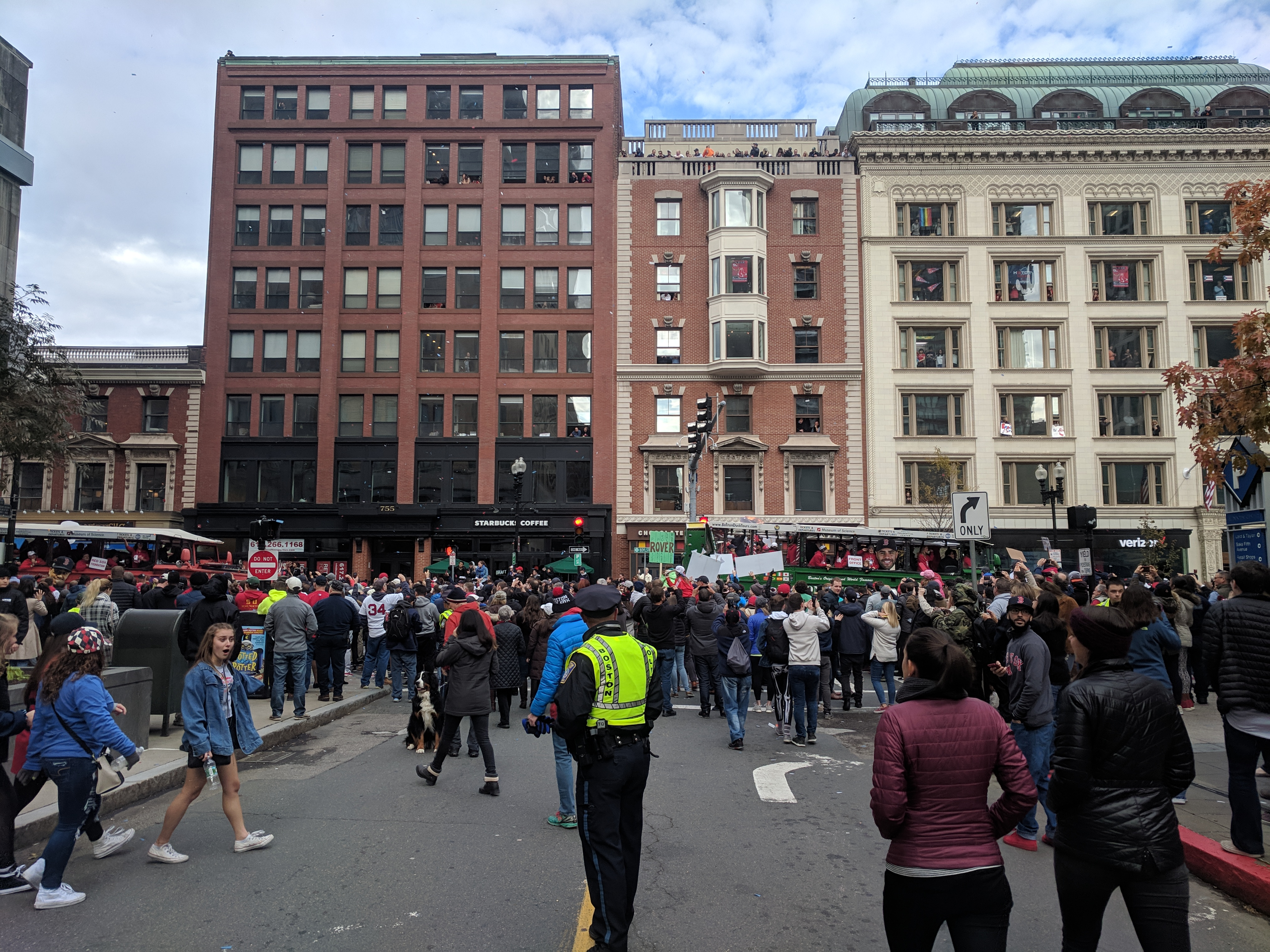 The victory parade held in Boston on October 31, 2018, in celebration of the Boston Red Sox winning the 2018 World Series.